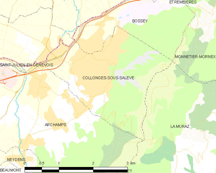 Map of French municipality Collonges-sous-Salève